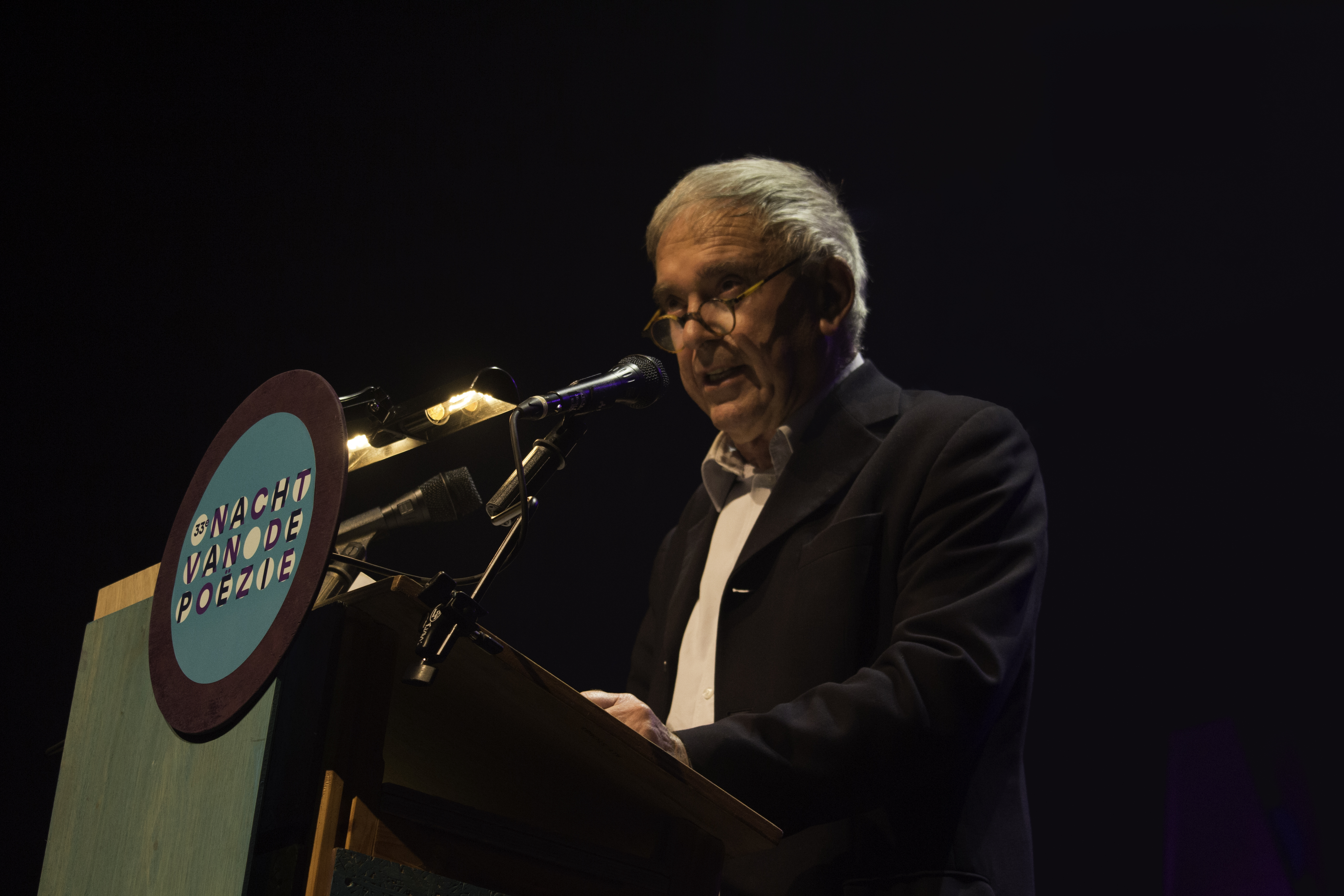 K. Schippers speaking at the Nacht van de Poëzie